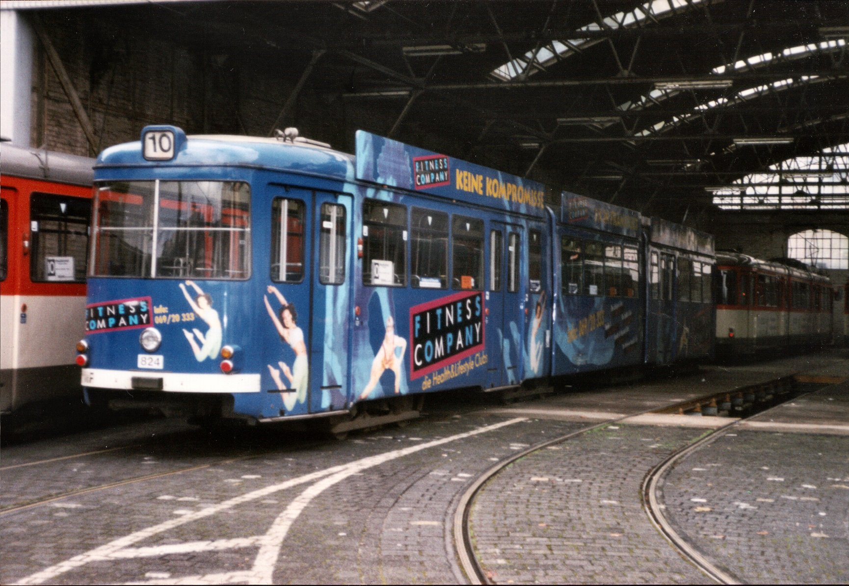 Former Tram depot at Hedderichstraße, Frankfurt am Main, May 2002.